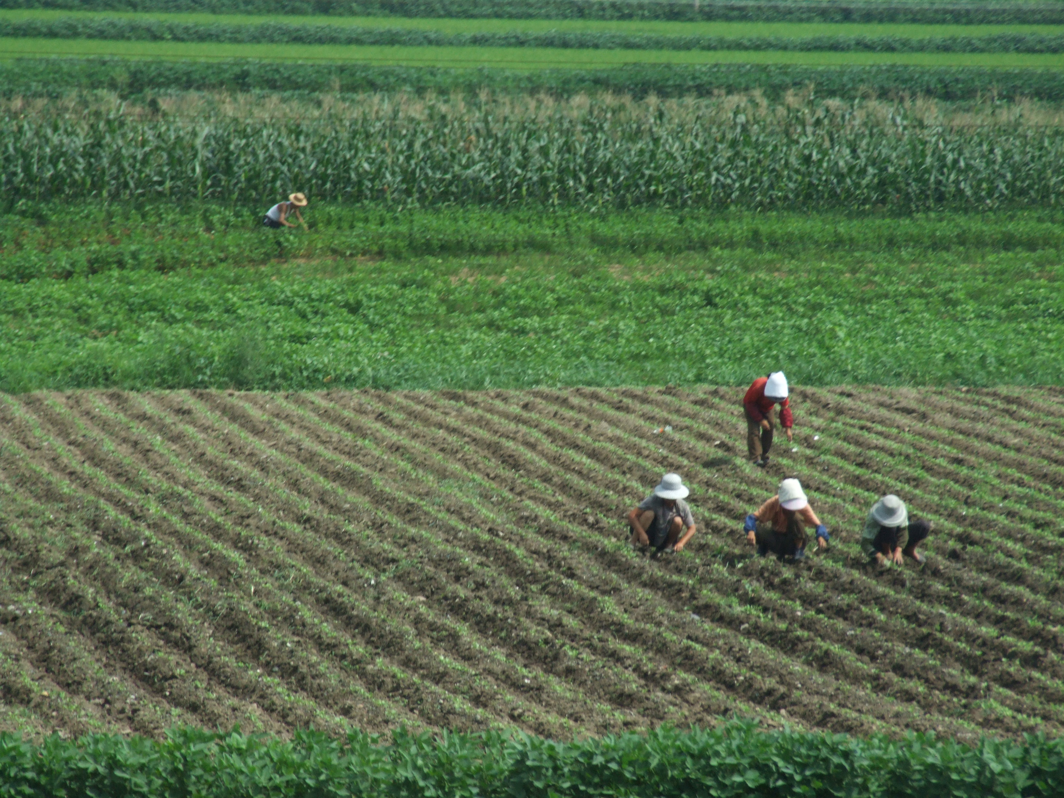 Agriculture in North Korea